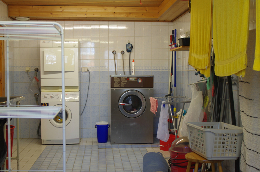 kansanopisto_4